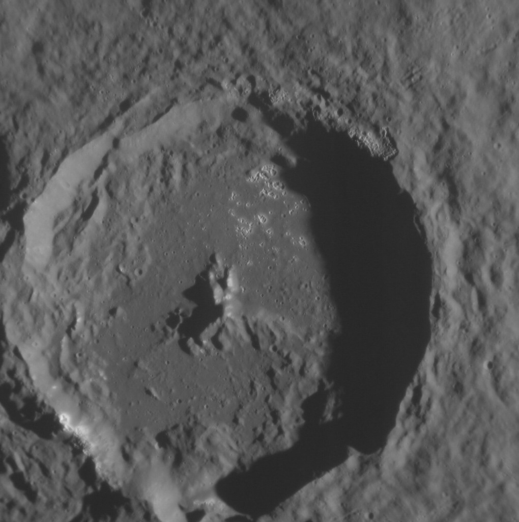 Flaiano crater on Mercury. MESSENGER Narrow Angle Camera. Approximate north is up. Width is approximately 53.1 km. Emission Angle: 5.4 Incidence Angle: 77.60 Latitude: -21.2 Longitude: 283.5 Phase Angle: 72.2